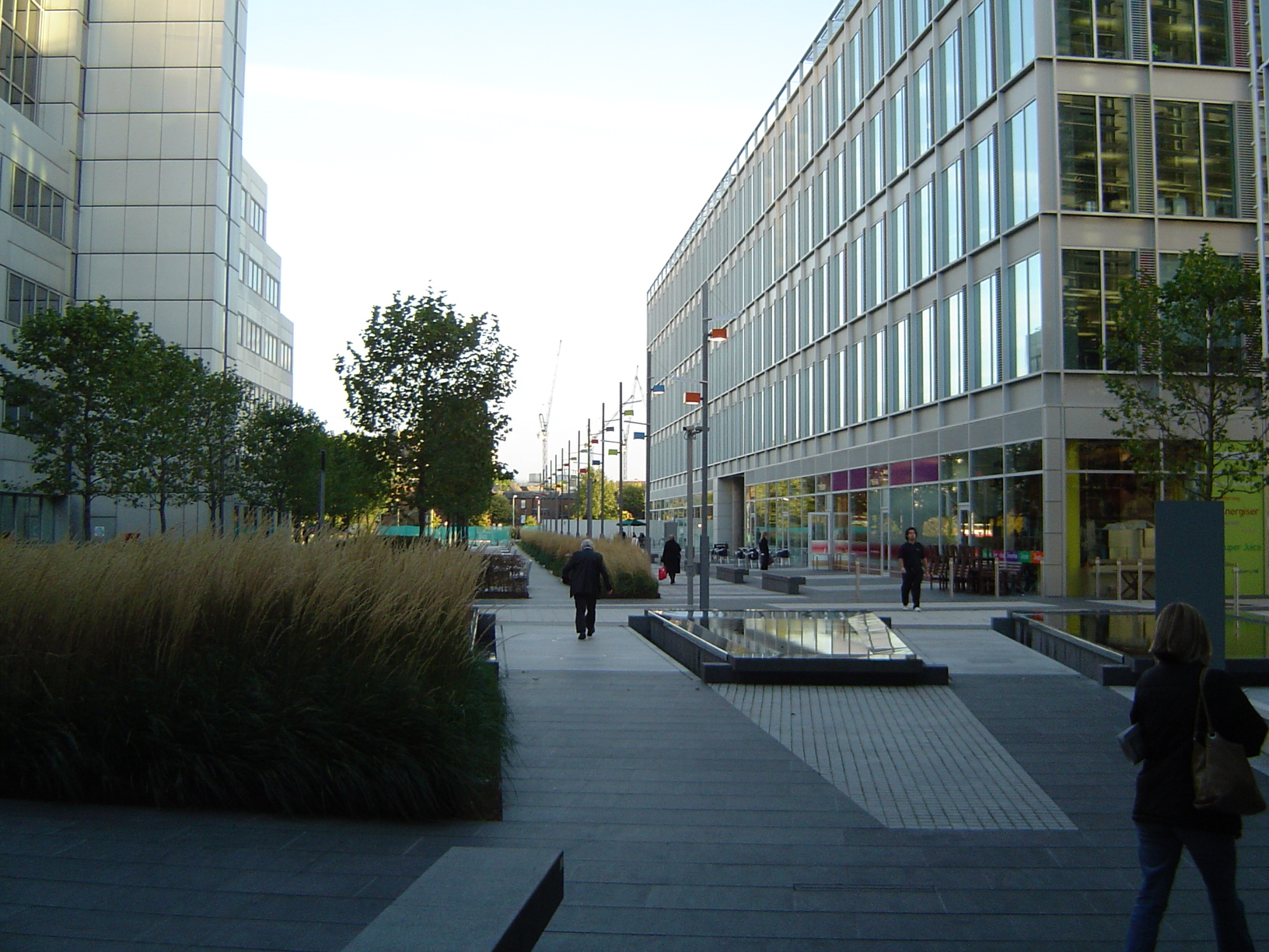 Photography is not allowed here...